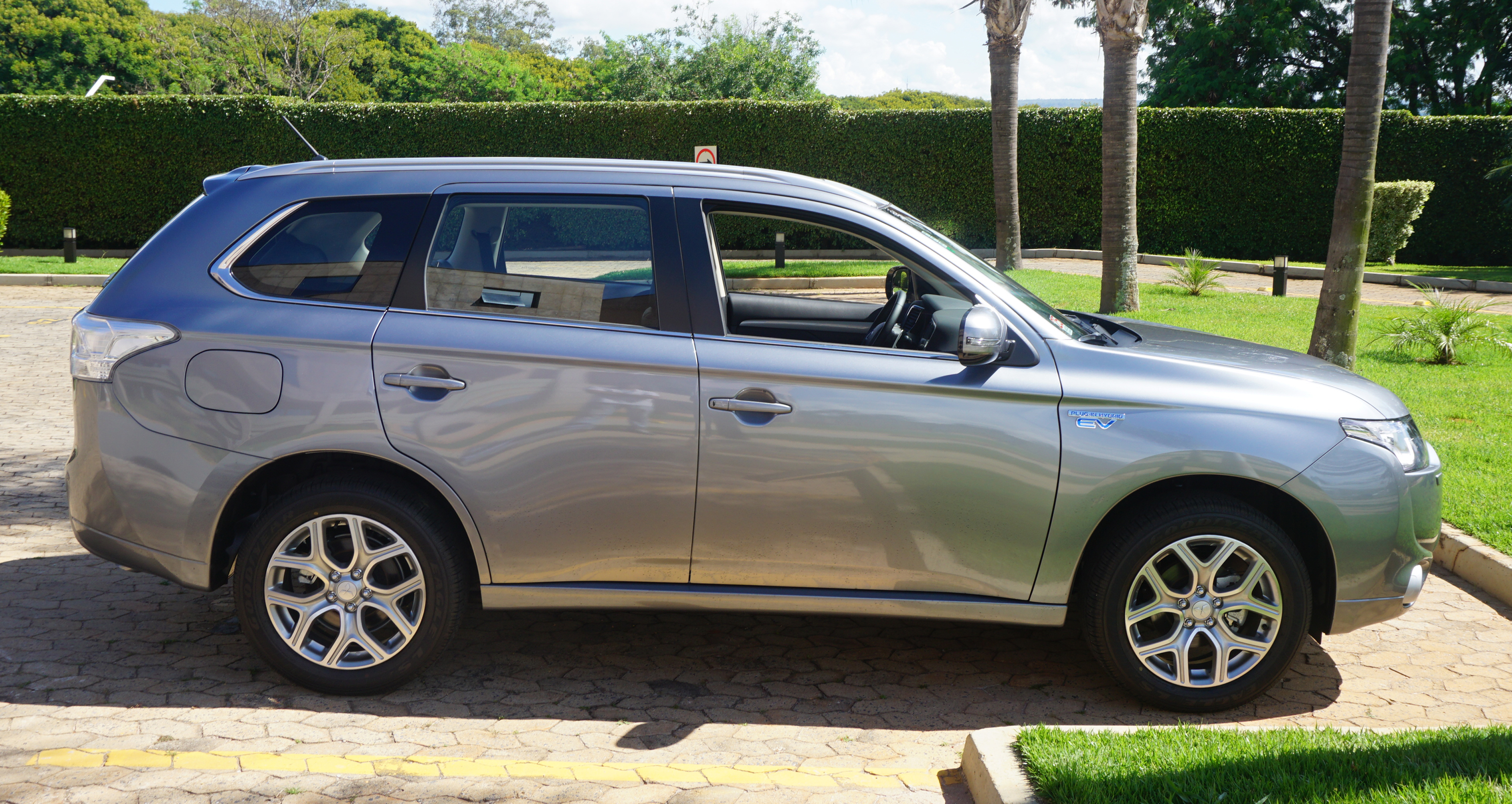 Lateral view 2014 Mitsubishi Outlander P-HEV. Brasilia, DF, Brazil.